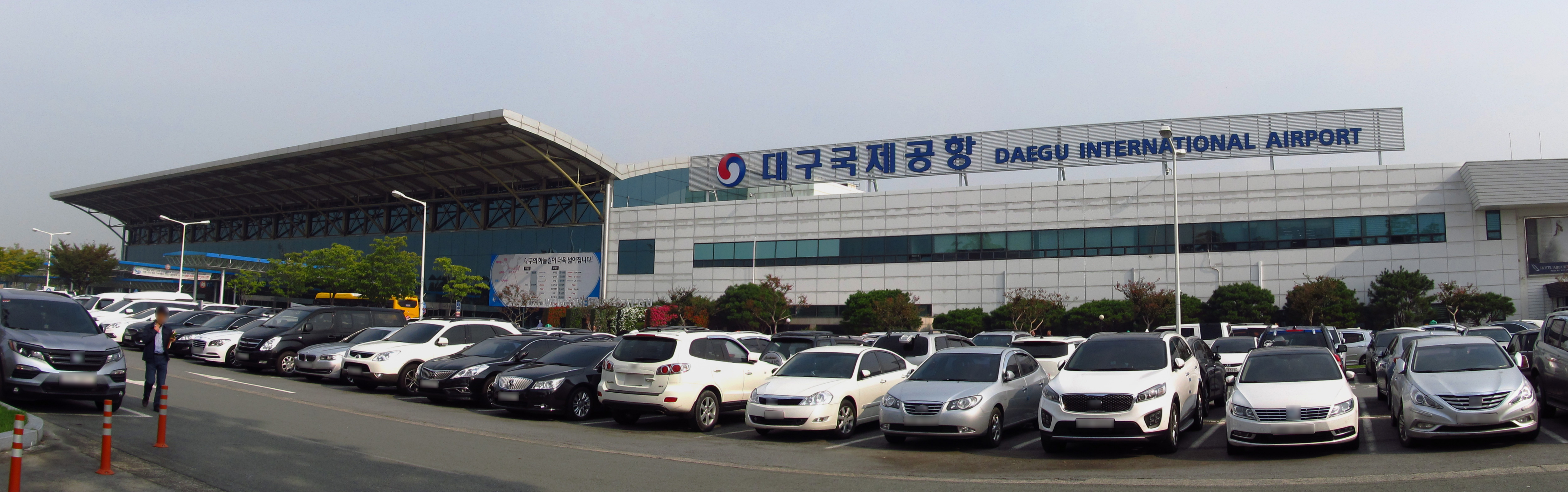 Daegu International Airport